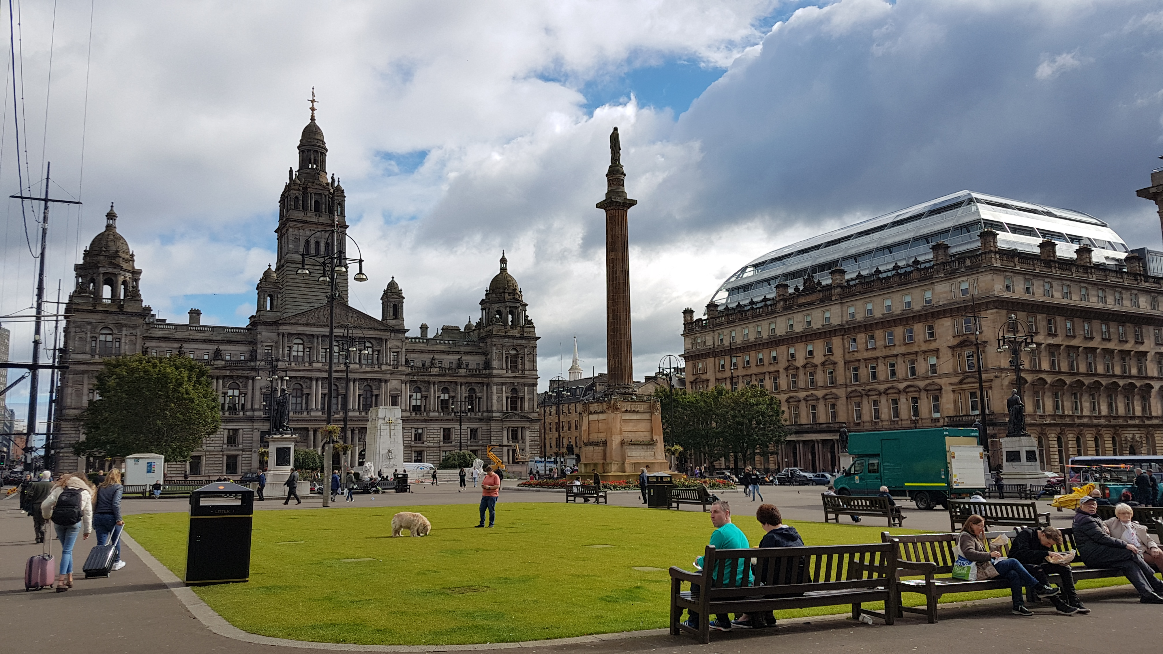 Glasgow City Chambers Wikidata has entry Q5566778 with data related to this item.